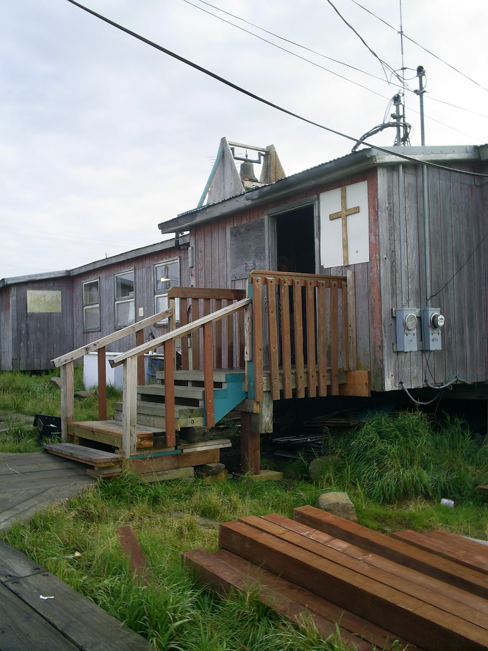 A photograph of St. Catherine of Siena Catholic Church in the Yup'ik village of Chefornak, Alaska.